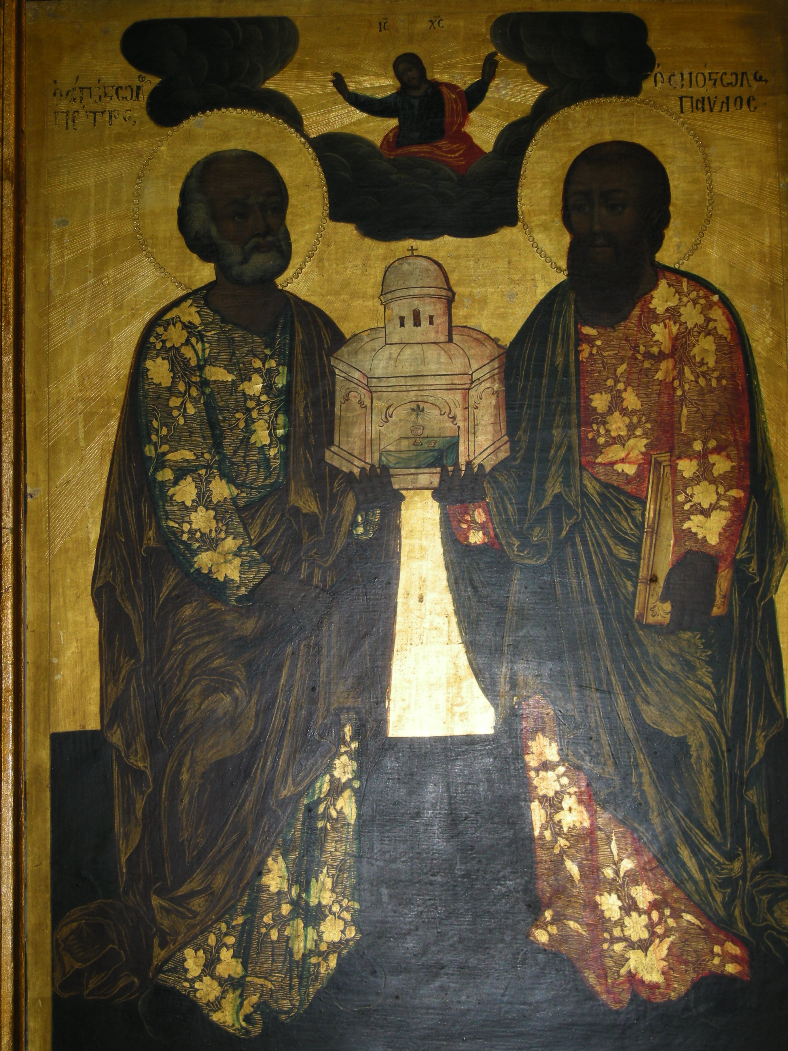 Visit in the Annunciation Cathedral of the Melkite Patriarch of Jerusalem